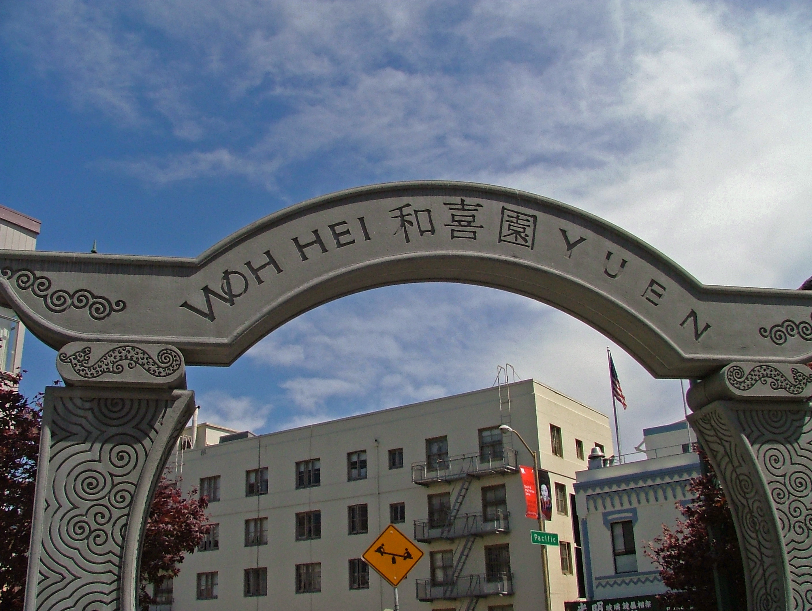 Photo of the entrance to Woh Hei Yuen Park located in San Francisco's Chinatown.